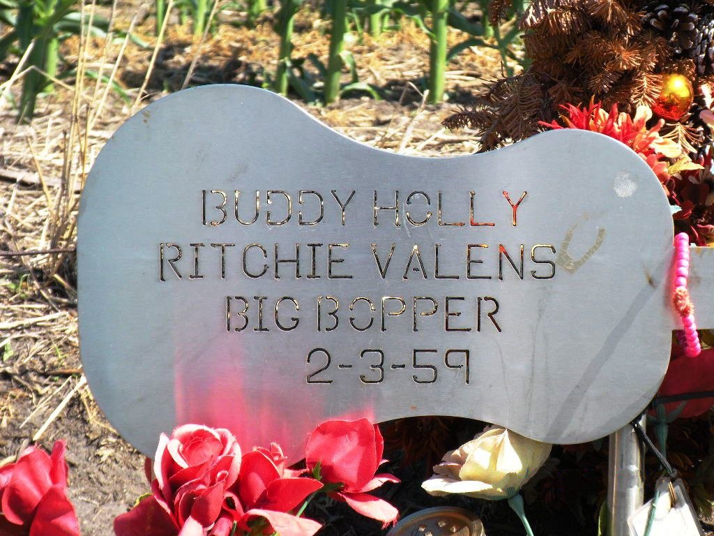 Stainless steel guitar at Holley Crash Site with names of Buddy Holley, Richie Valens, and Big Bopper.